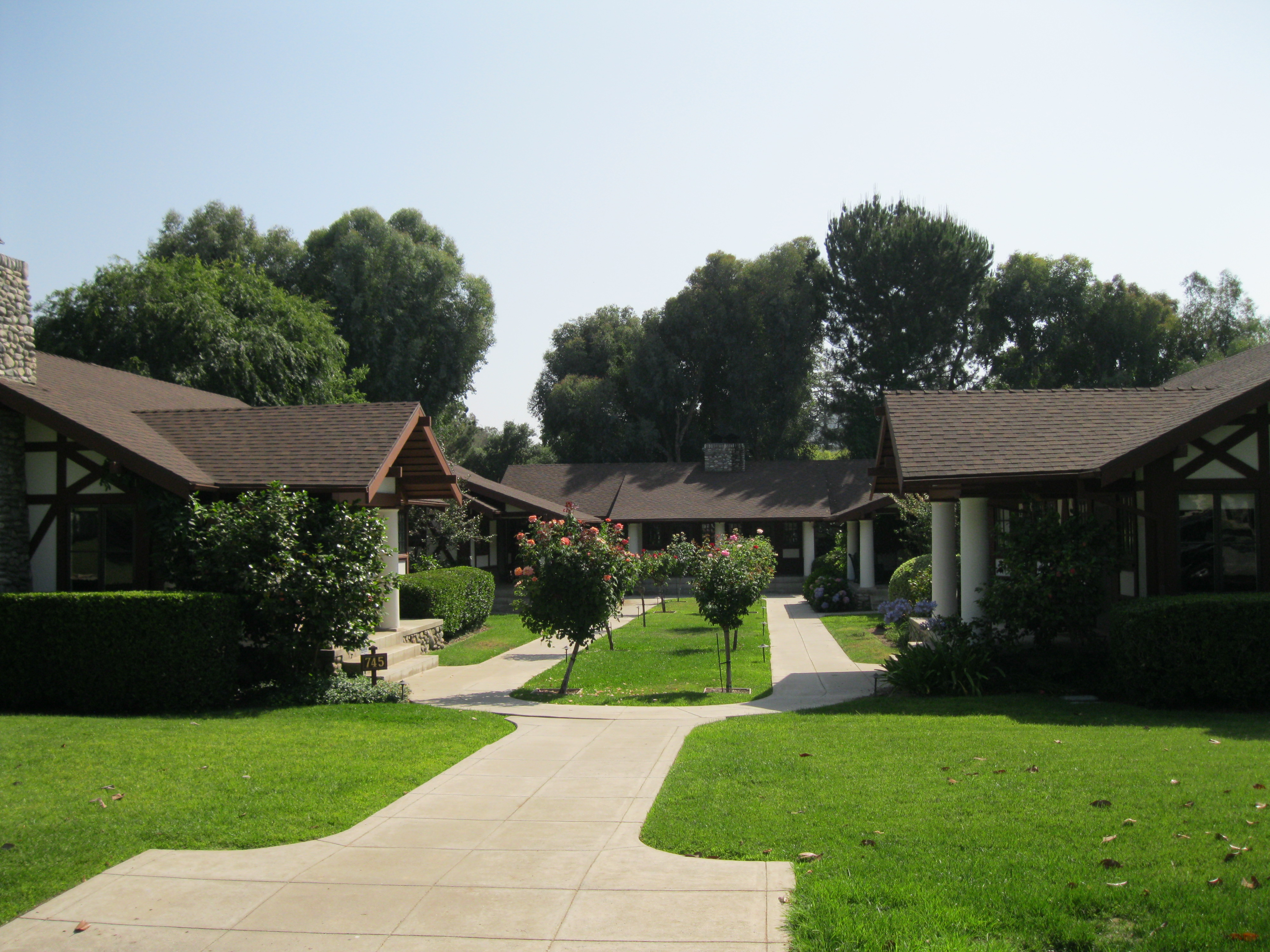 The Gartz Court is a bungalow court located at 745 N. Pasadena Ave. in Pasadena, California. The court is listed on the National Register of Historic Places.